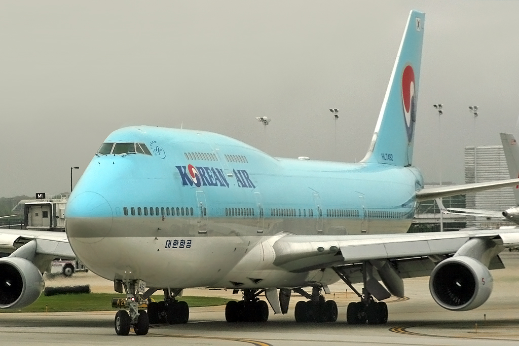 Chicago O Hare International KORD/ORD